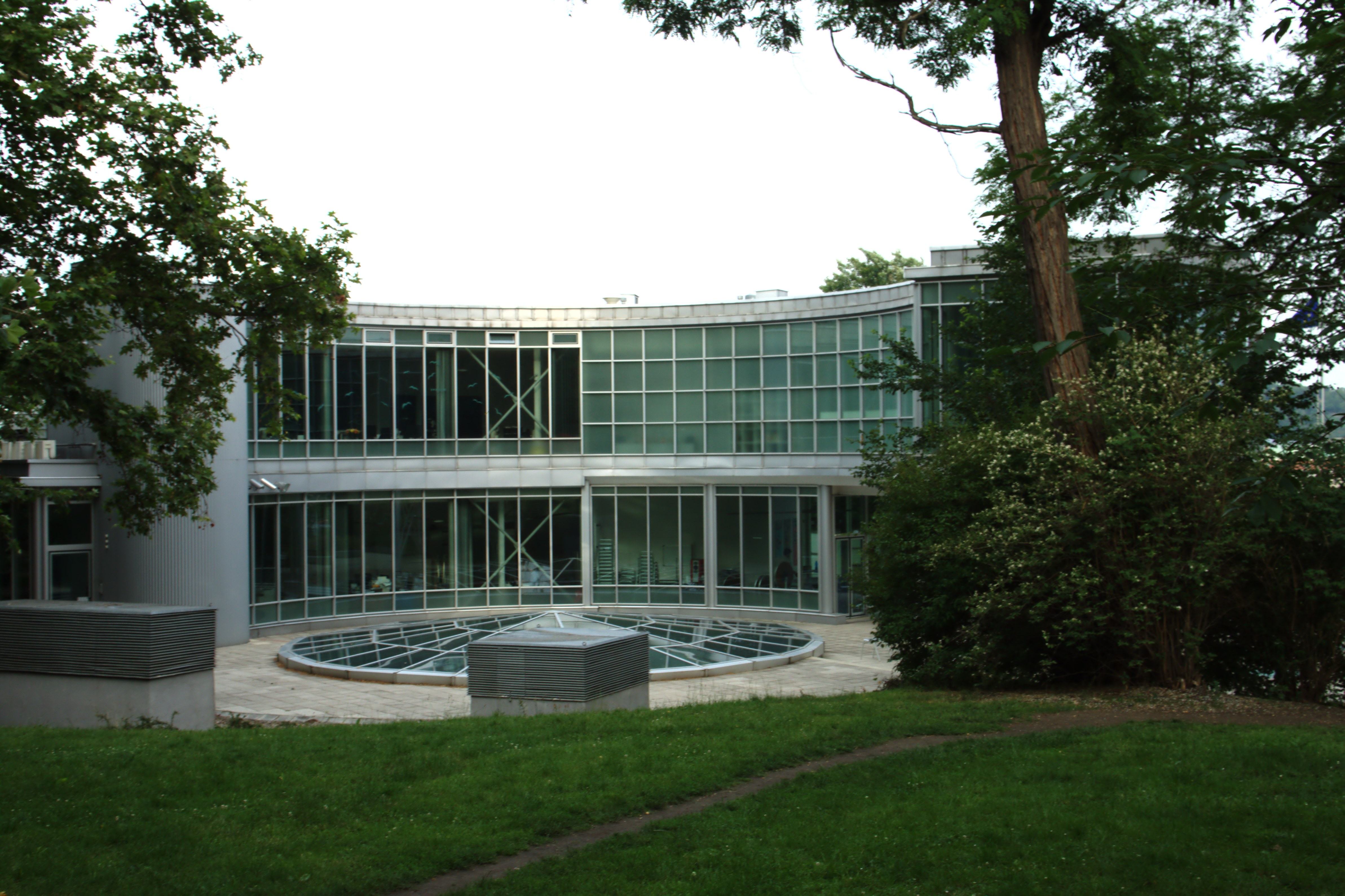 Expo 58 building in Prague-Letná, Prague, CZ